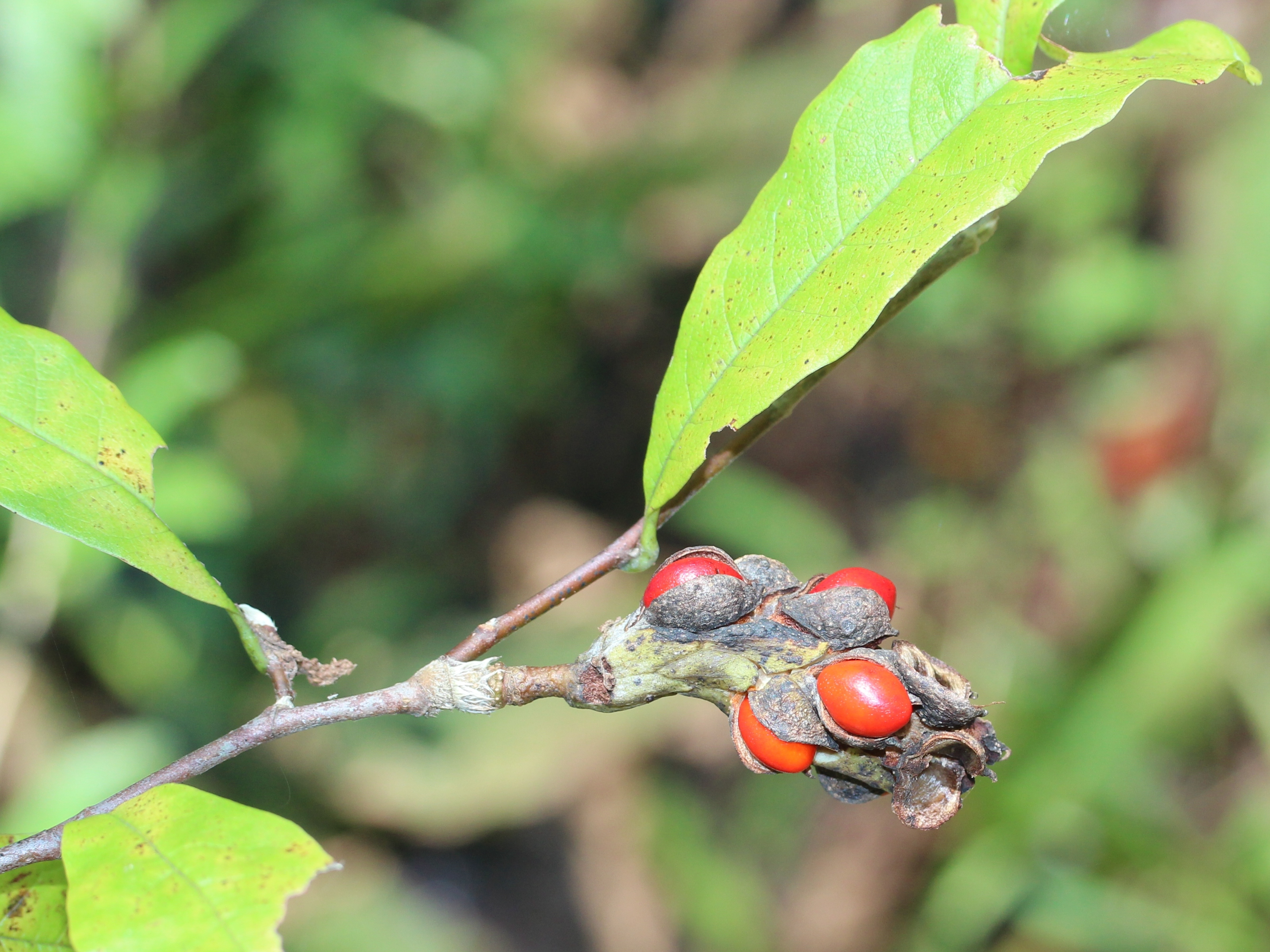 fruits of Magnolia stellata in Japan.